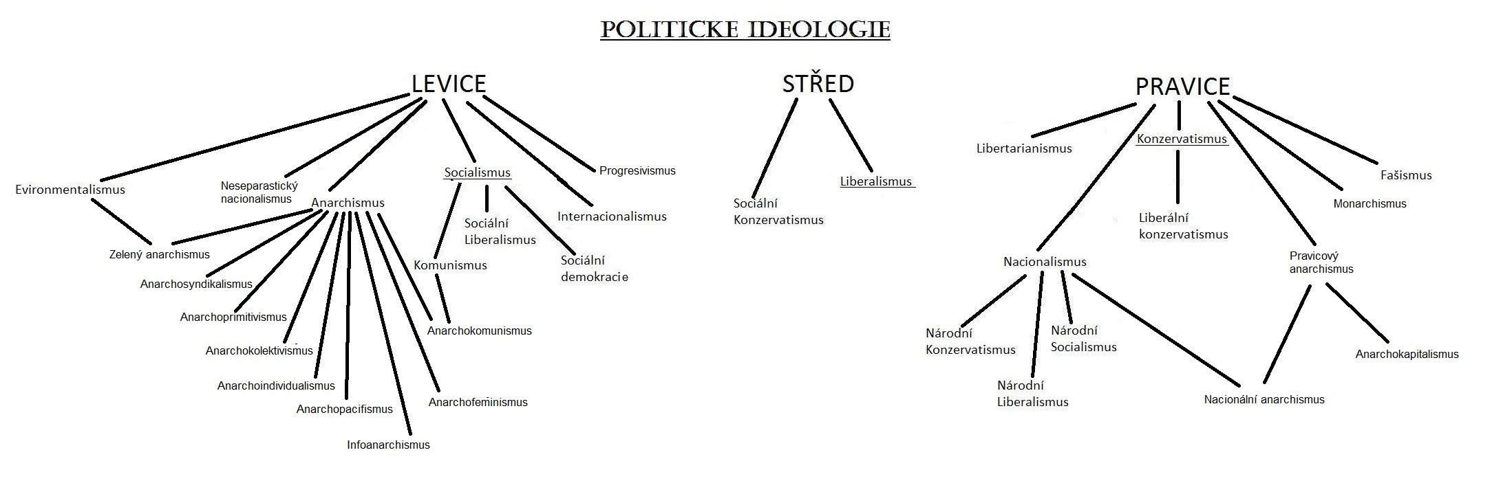 Grad politických ideologií podle Adama Stříbného